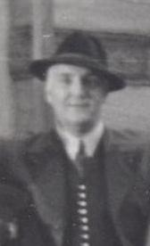 German opera singer Max Lorenz, Bayreuth, Germany